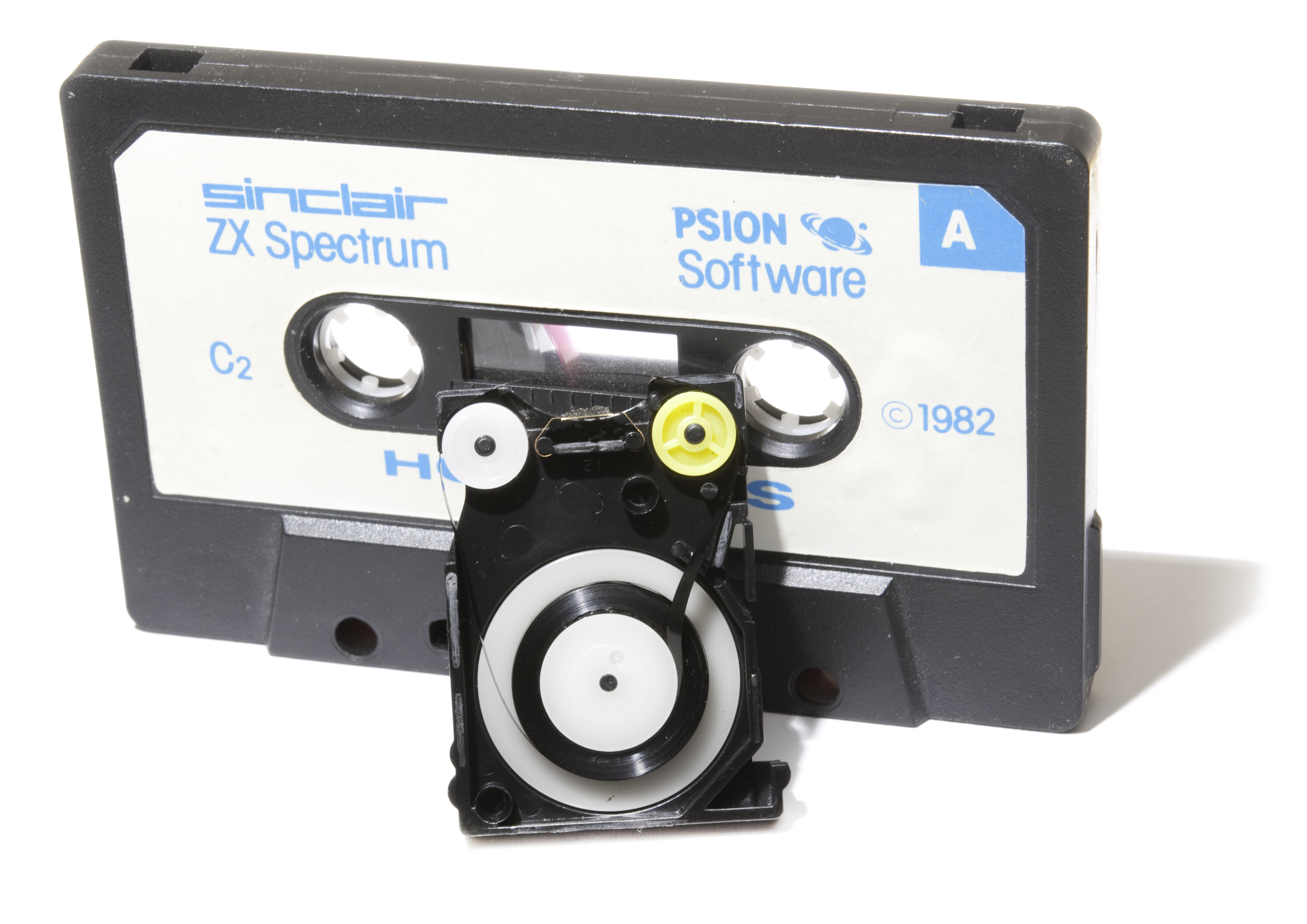 ZX Microdrive opened, compared to the other means of data storage for the Sinclair ZX spectrum (a compact cassette that contains roughly the same amount of data - 100 kB - but takes 20 minutes to load, as compared to some ten seconds for the microdrive)